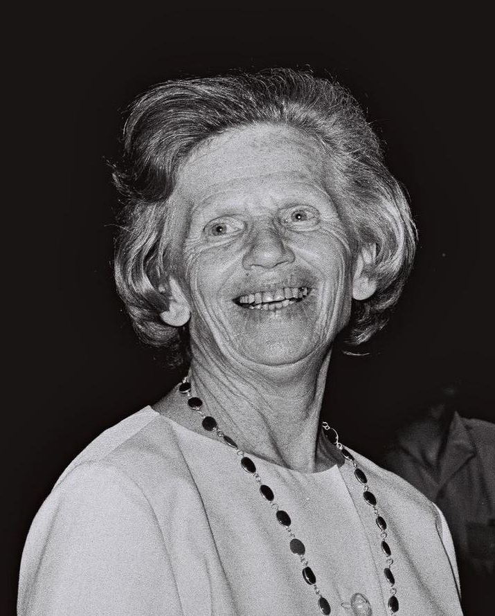 Pres. of the consultative european council sir Geoffrey de Freitas with mk Ruth Hecktin at Lod airport, after arriving for inauguration of the new Knesset building.